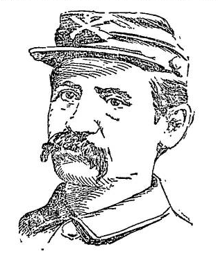 A sketch of Captain Samuel R. Russel as it appeared in his obituary, Pennsylvania Scrap Book Necrology, Volume 26, p. 039